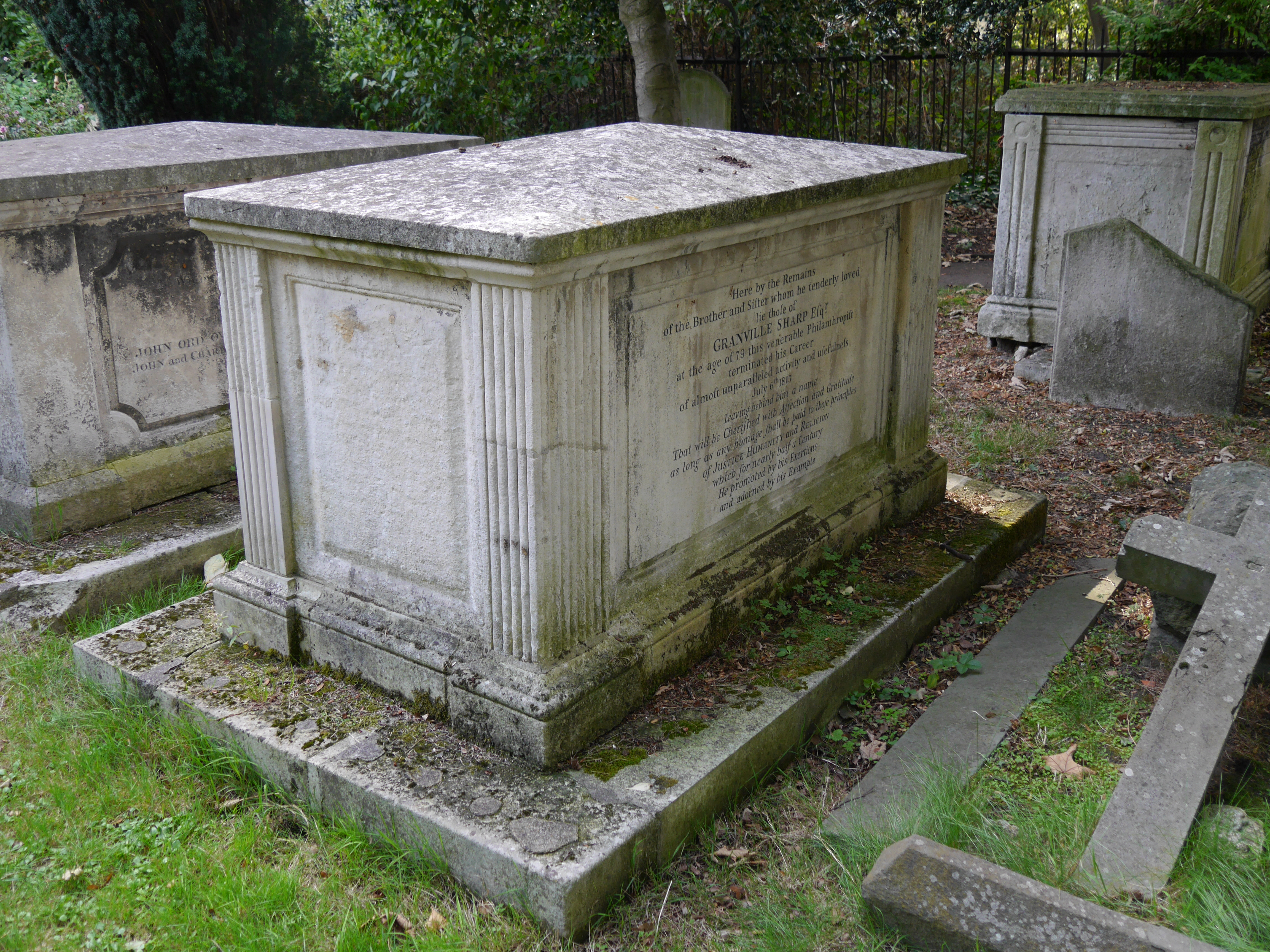 Granville Sharp's tomb, All Saints, Fulham, Sep 2016